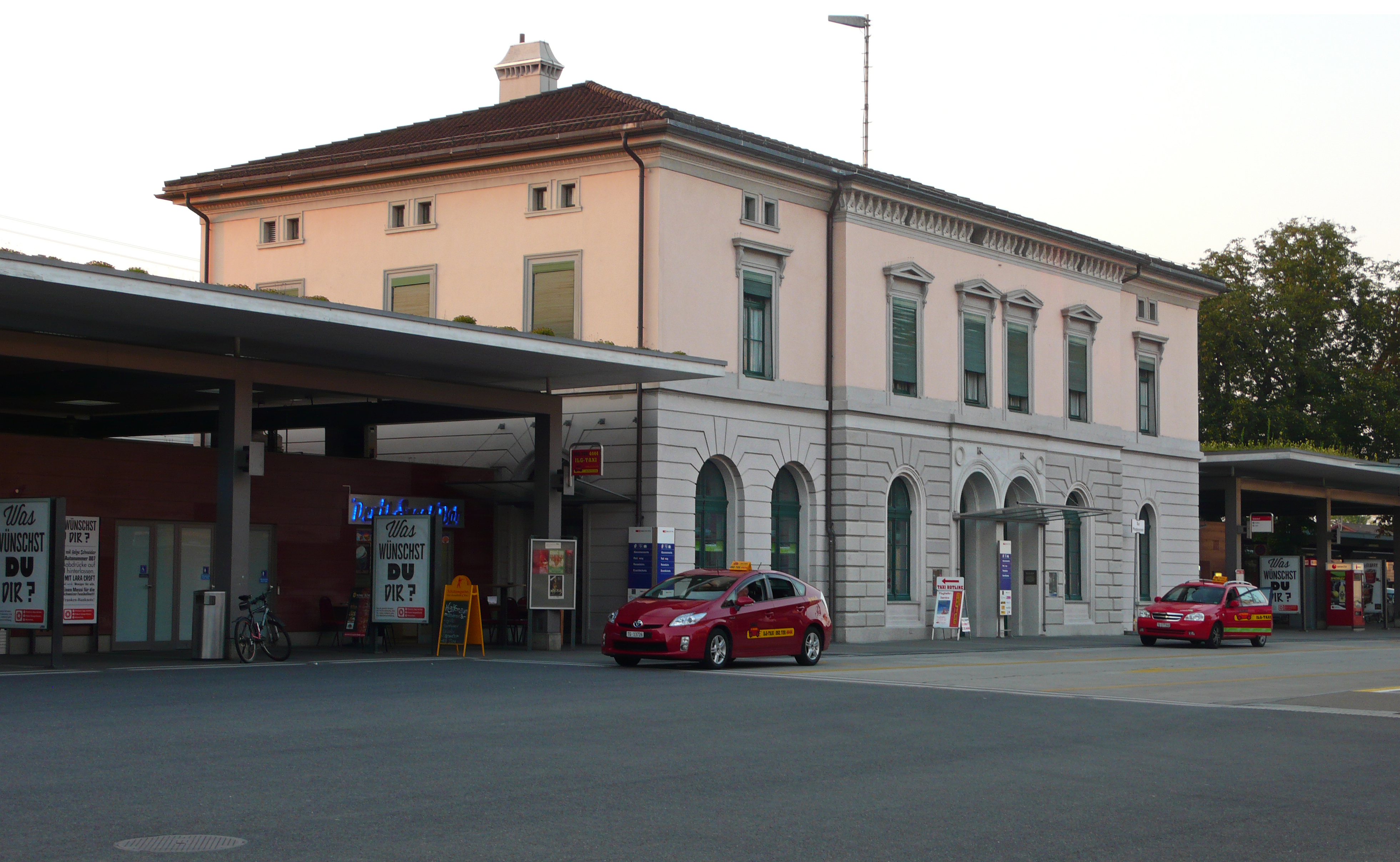 Train station of Frauenfeld, Switzerland.